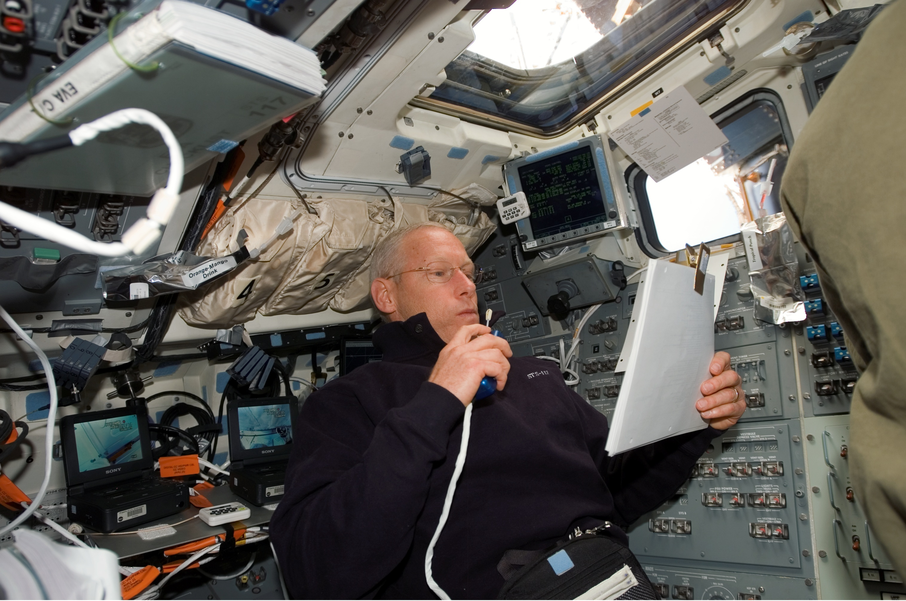 On the aft flight deck of the Space Shuttle Atlantis, astronaut Patrick Forrester, STS-117 mission specialist, talks to ground controllers while supporting two spacewalking crewmates. Forrester will participate in the fourth and final STS-117 spacewalk on June 17.